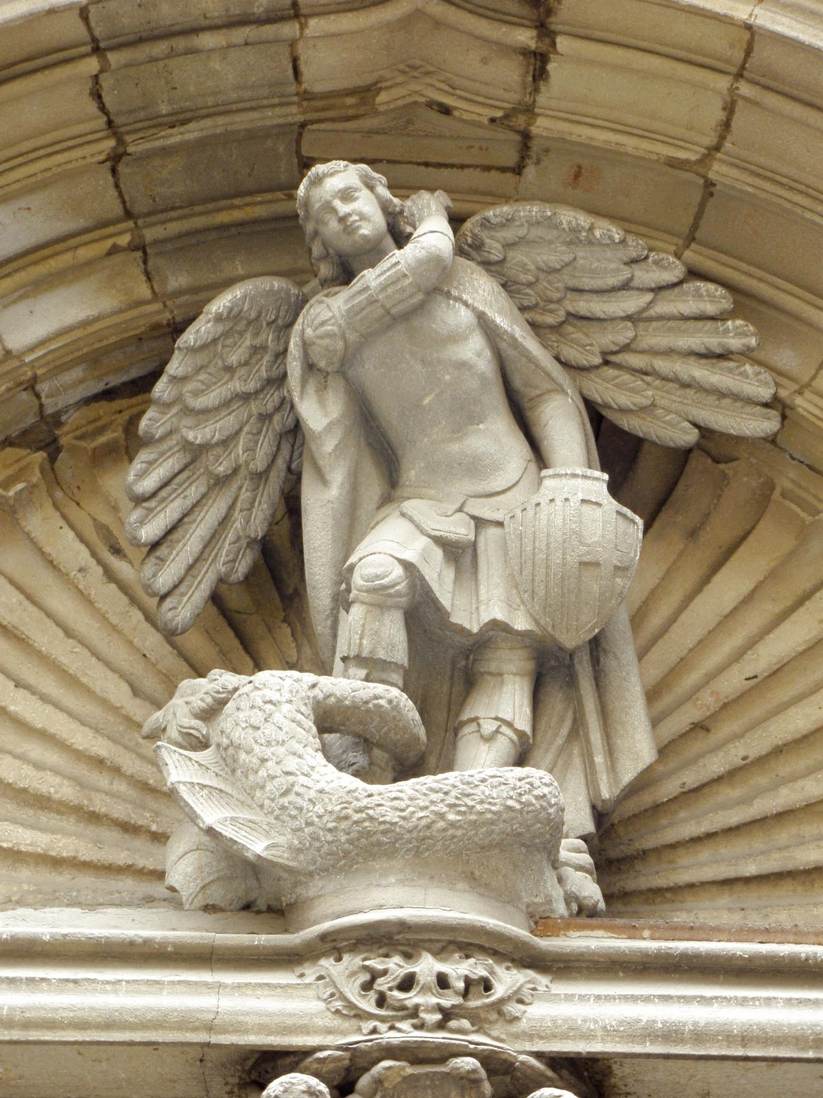 San Miguel Arcángel, en el tímpano de la portada lateral de la Basílica de la Merced de Barcelona (Cataluña, España)